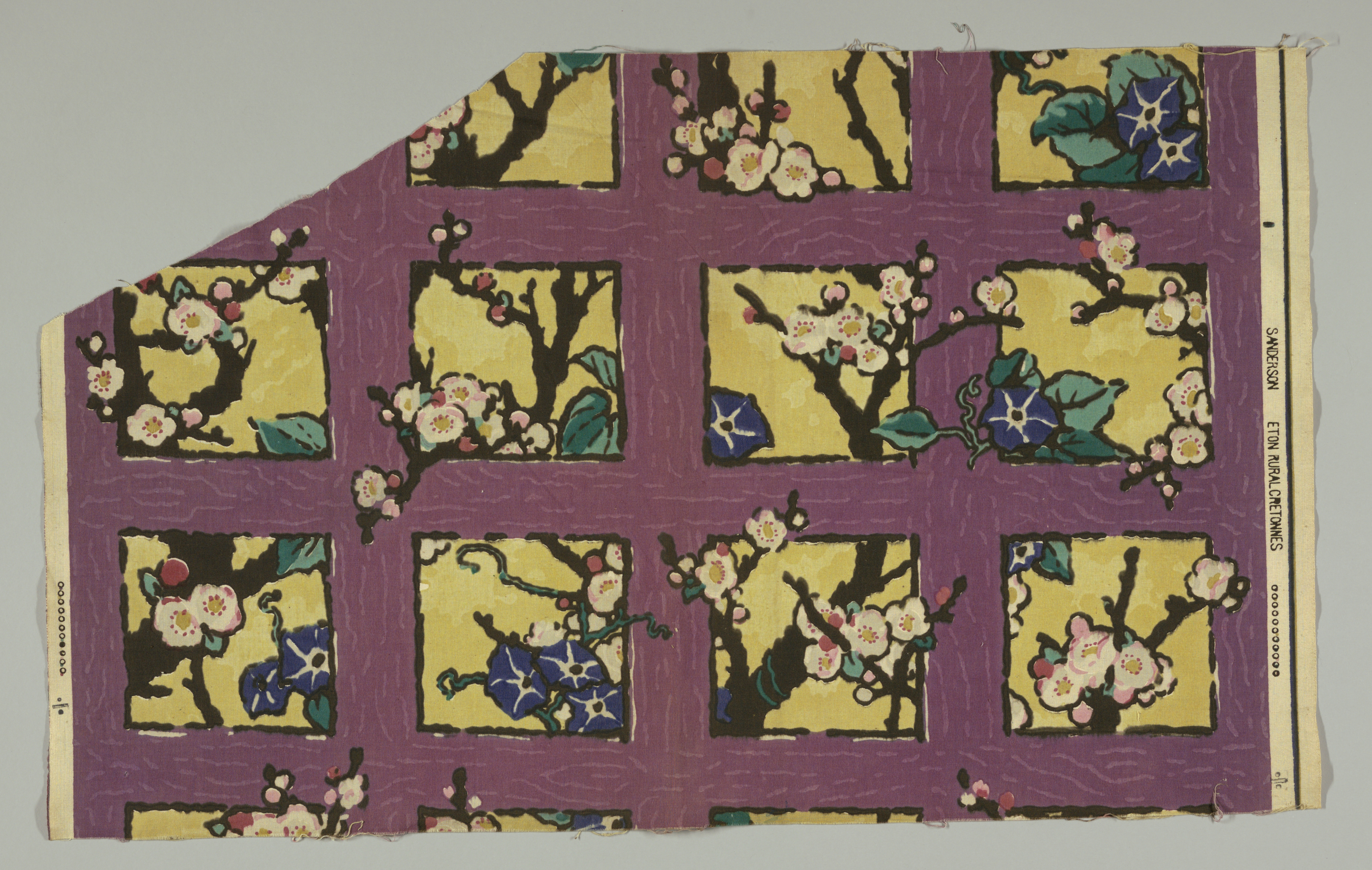 Multicolored block print of a lavender trellis on a yellow ground. Trellis entwined with pink cherry blossoms and blue morning glories.